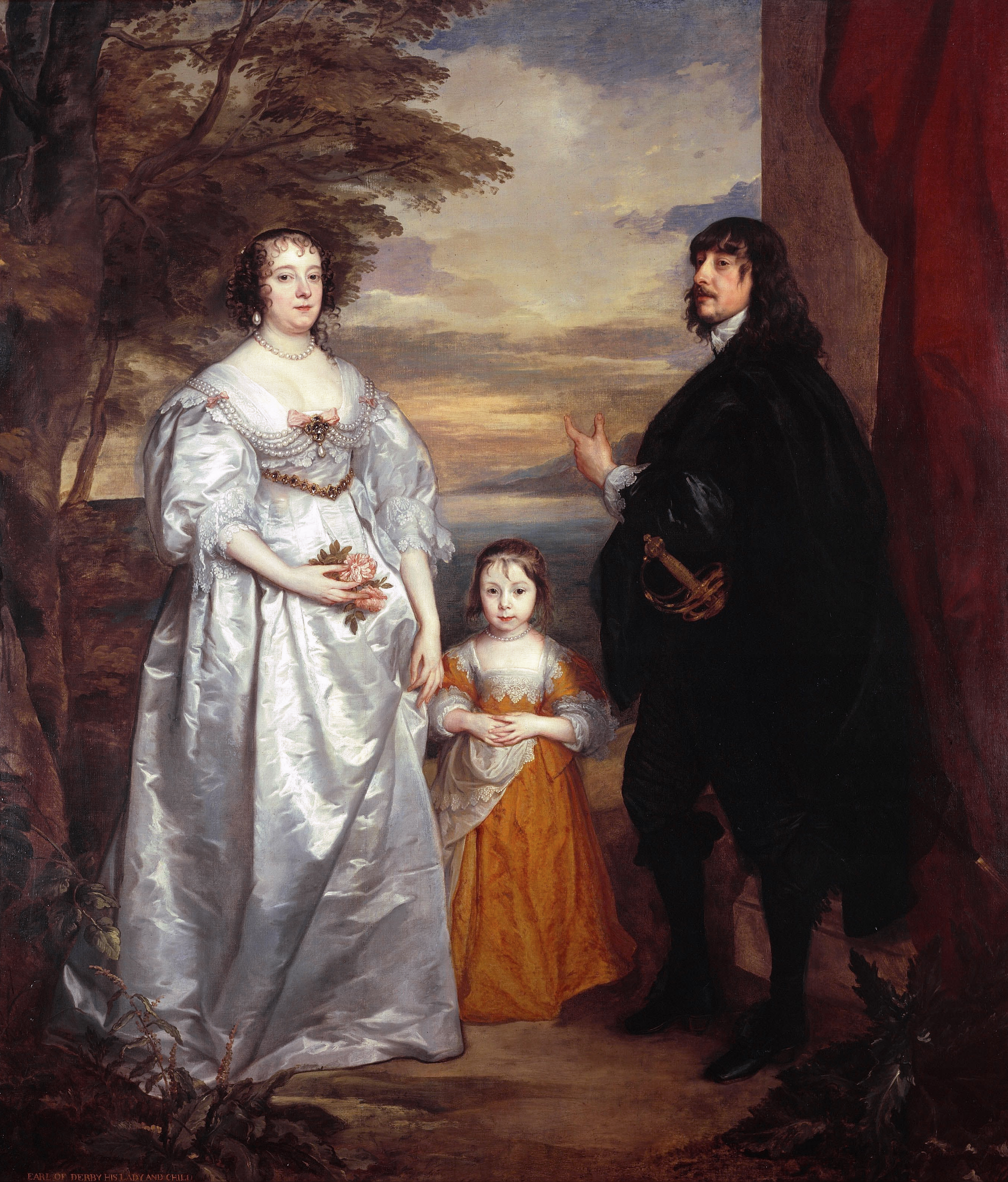 James, 7th Earl of Derby, His Lady and Child